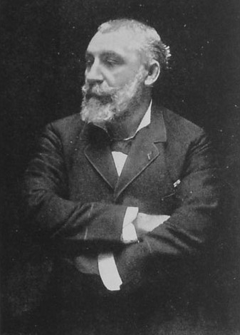 Rodolphe Julian (1839-1907)